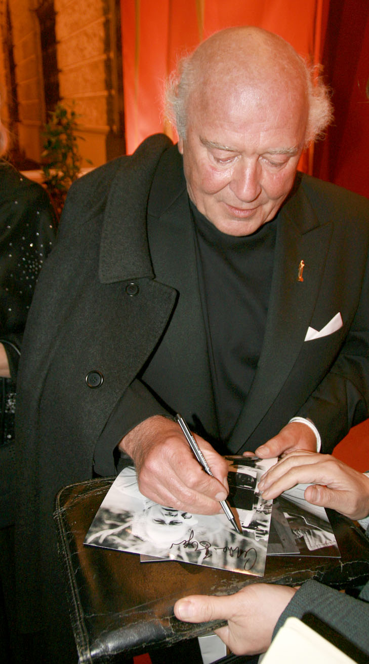 Christian Berger at the Romy TV awards (Hofburg Imperial Palace in Vienna)